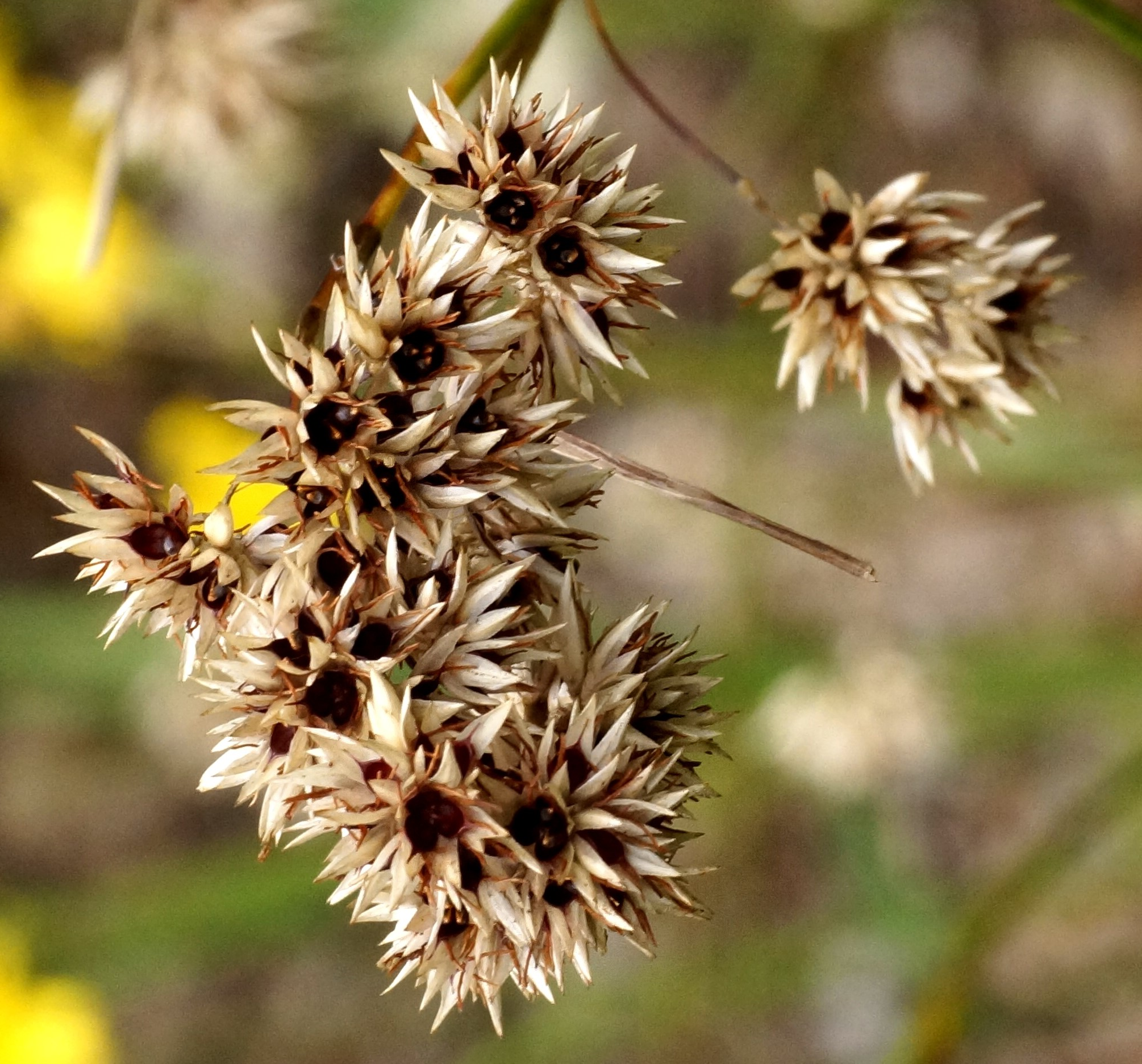 Luzula nivea, Mittenwald, Bavaria, Germany